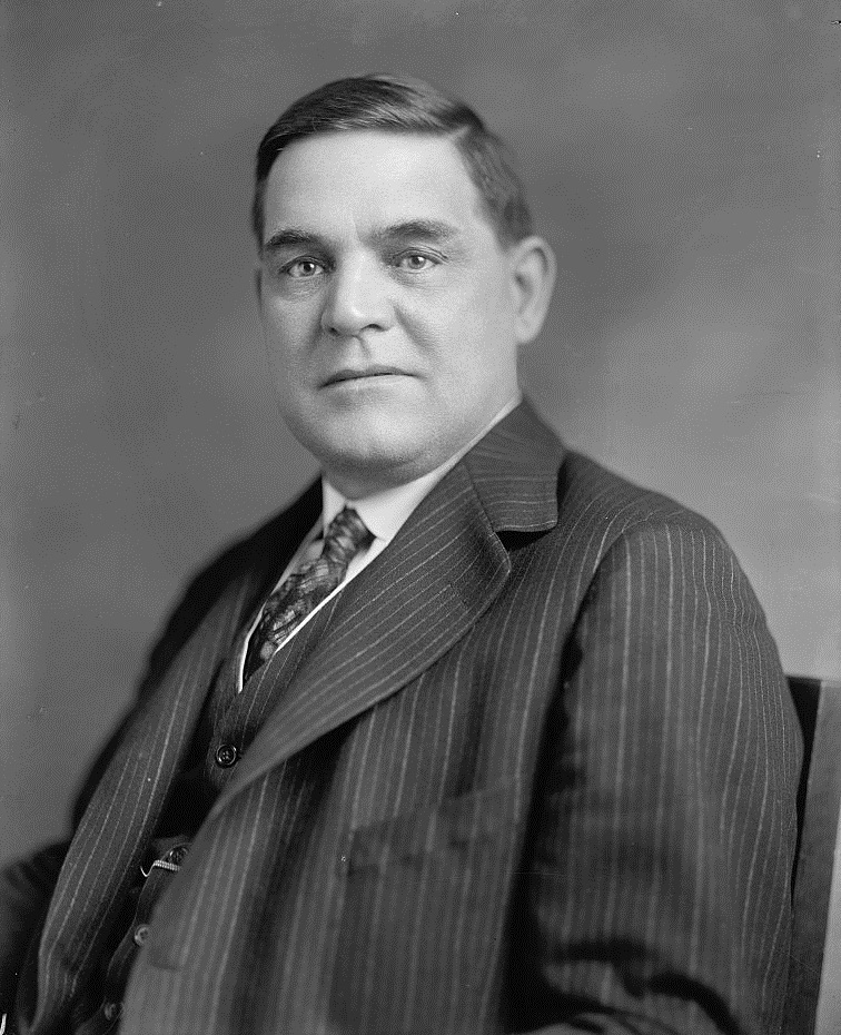 William Gordon, congressman from Cleveland, Ohio.